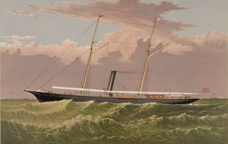 Title: Steam yacht Corsair Physical description: 1 print : chromolithograph.